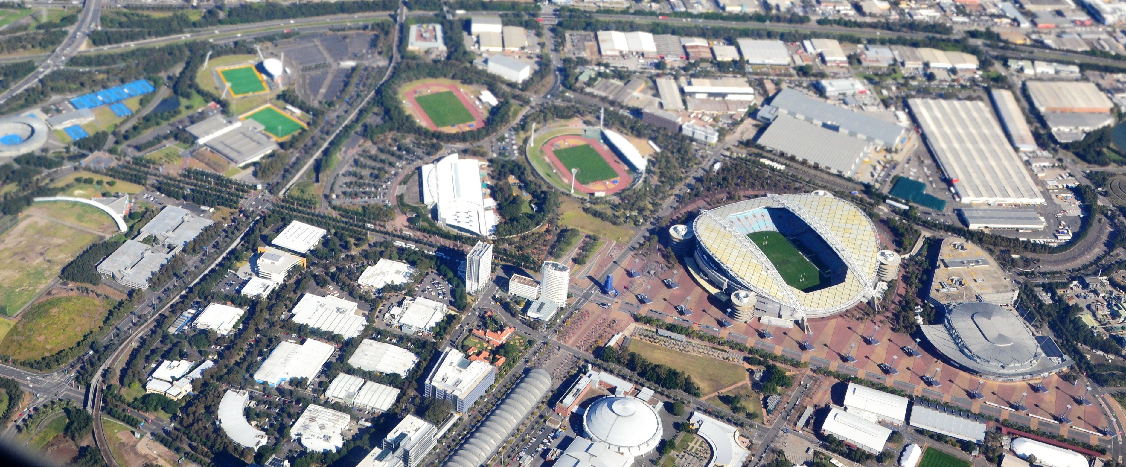 Sydney Olympic Park photo taken from the window of a Garuda A330 on the way out of Sydney to Bali